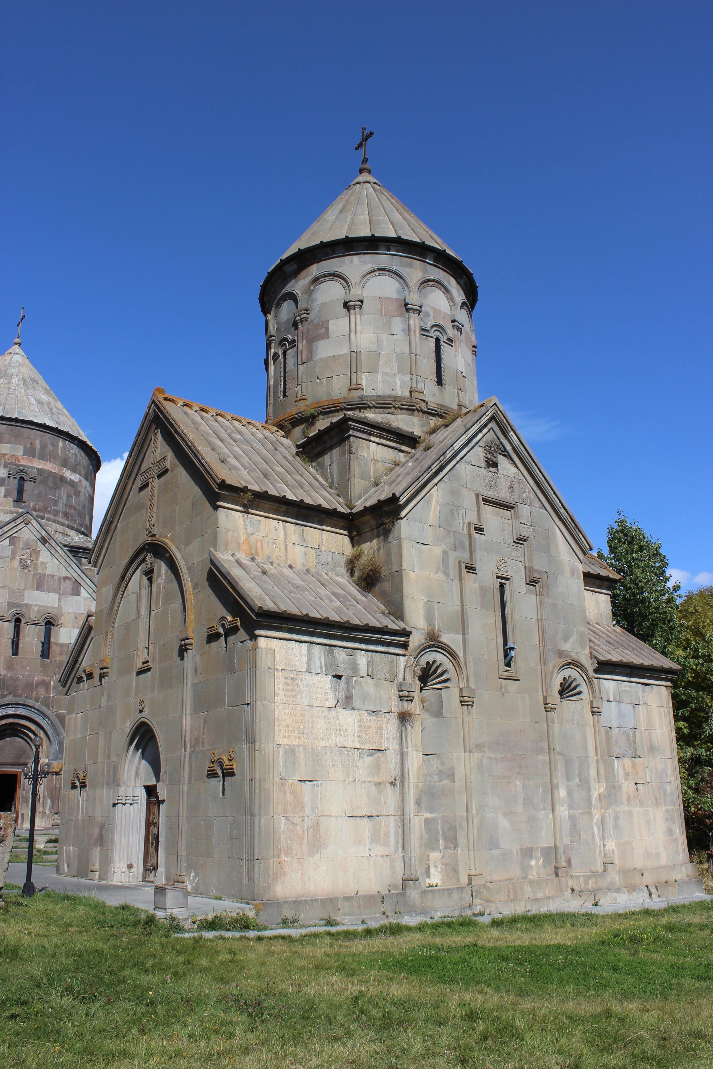 Katoghike Church (c. first quarter of the 13th century) at Kecharis Monastery in Tsakhkadzor, Kotayk Province, Armenia. Architect: Vetsik